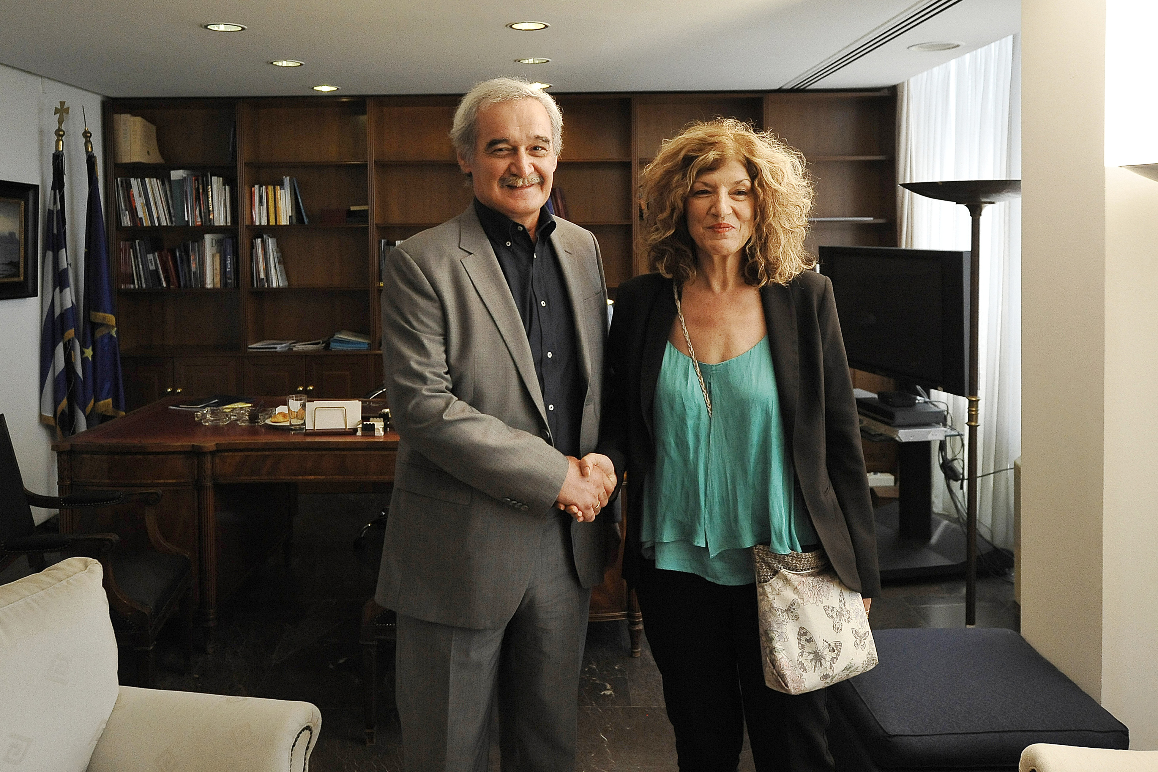 Greek Alternate Minister of European Affairs Nikos Hountis with his successor Sia Anagnostopoulou.